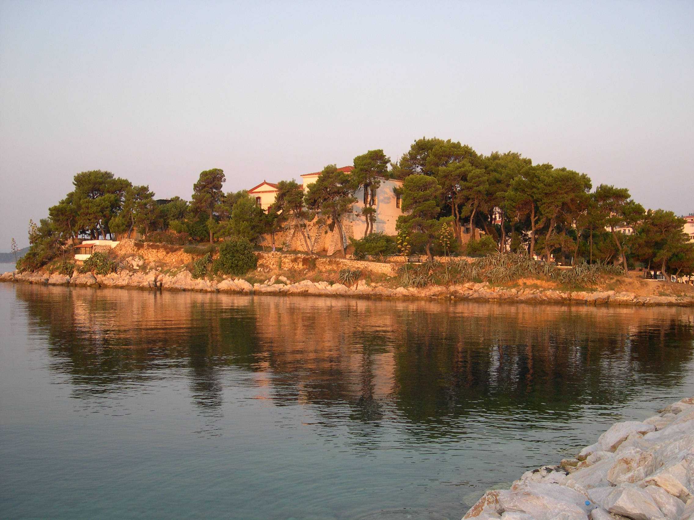 The Mpourtzi peninsula of Skiathos at dawn.